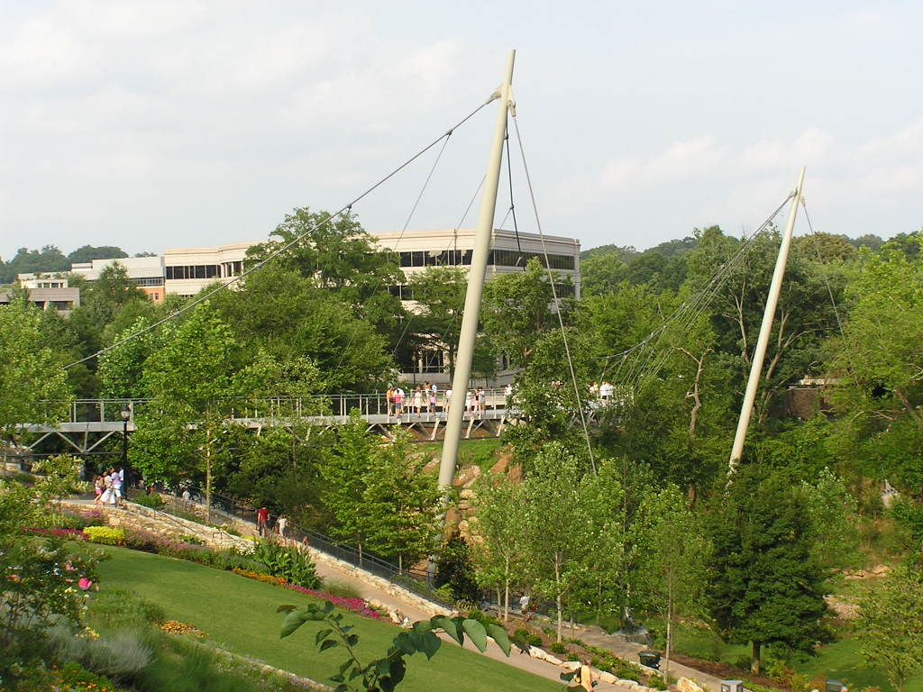 Liberty Bridge at Falls Park on the Reedy, downtown Greenville, South Carolina, United States.